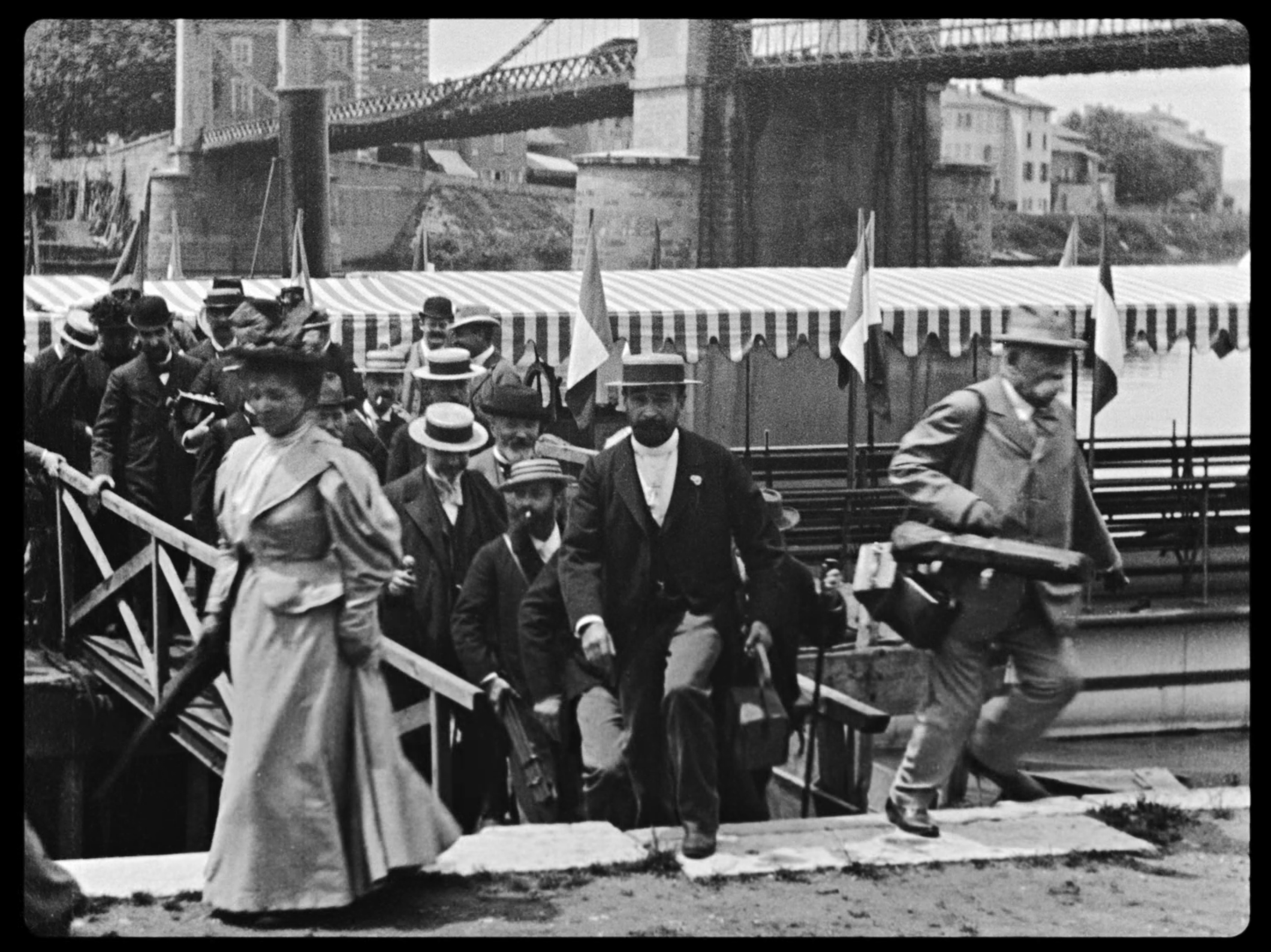 Le Débarquement du Congrès de Photographie à Lyon, from the movie by brothers Lumière, 1895